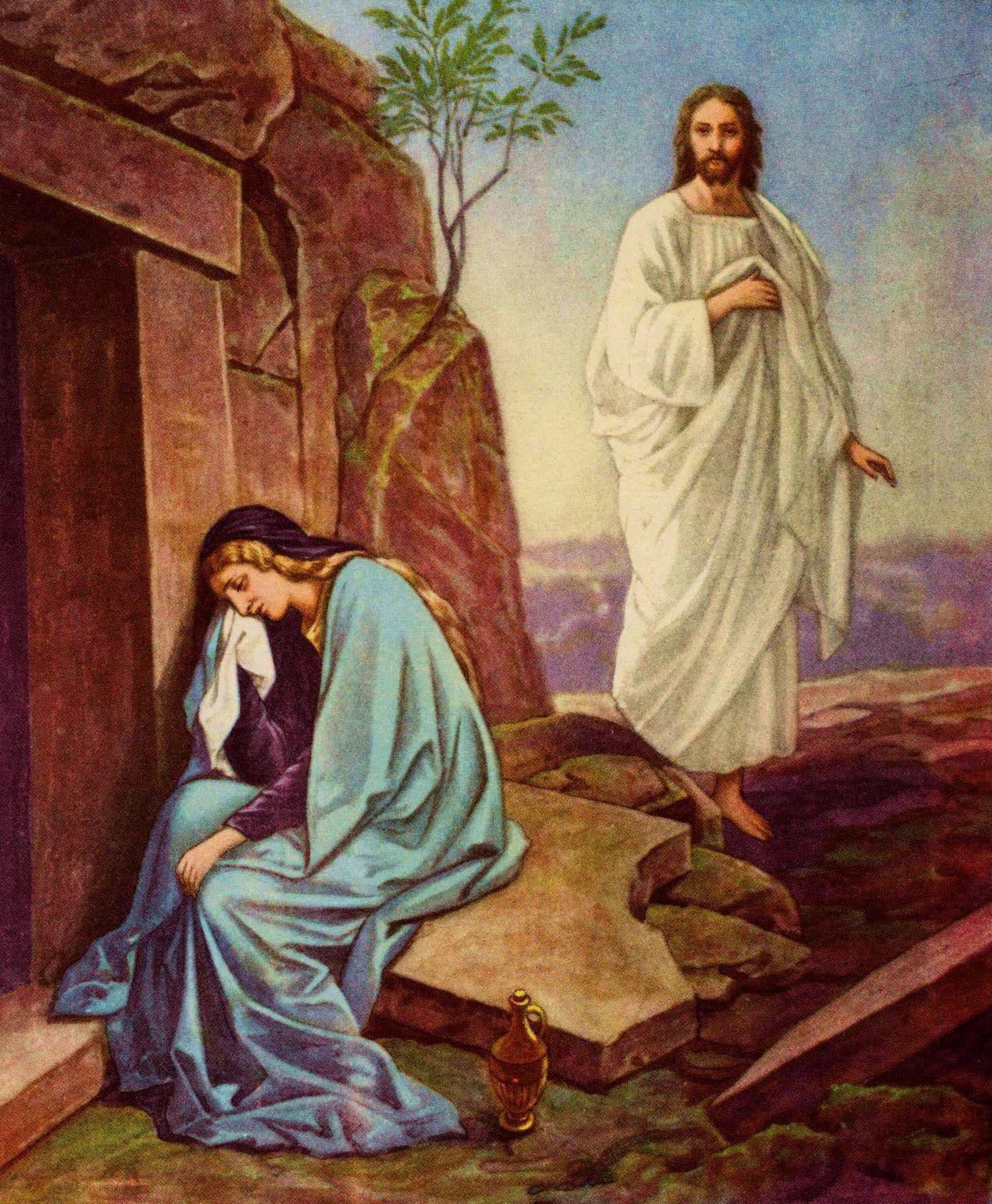 Jesus resurrected and Mary Magdalene